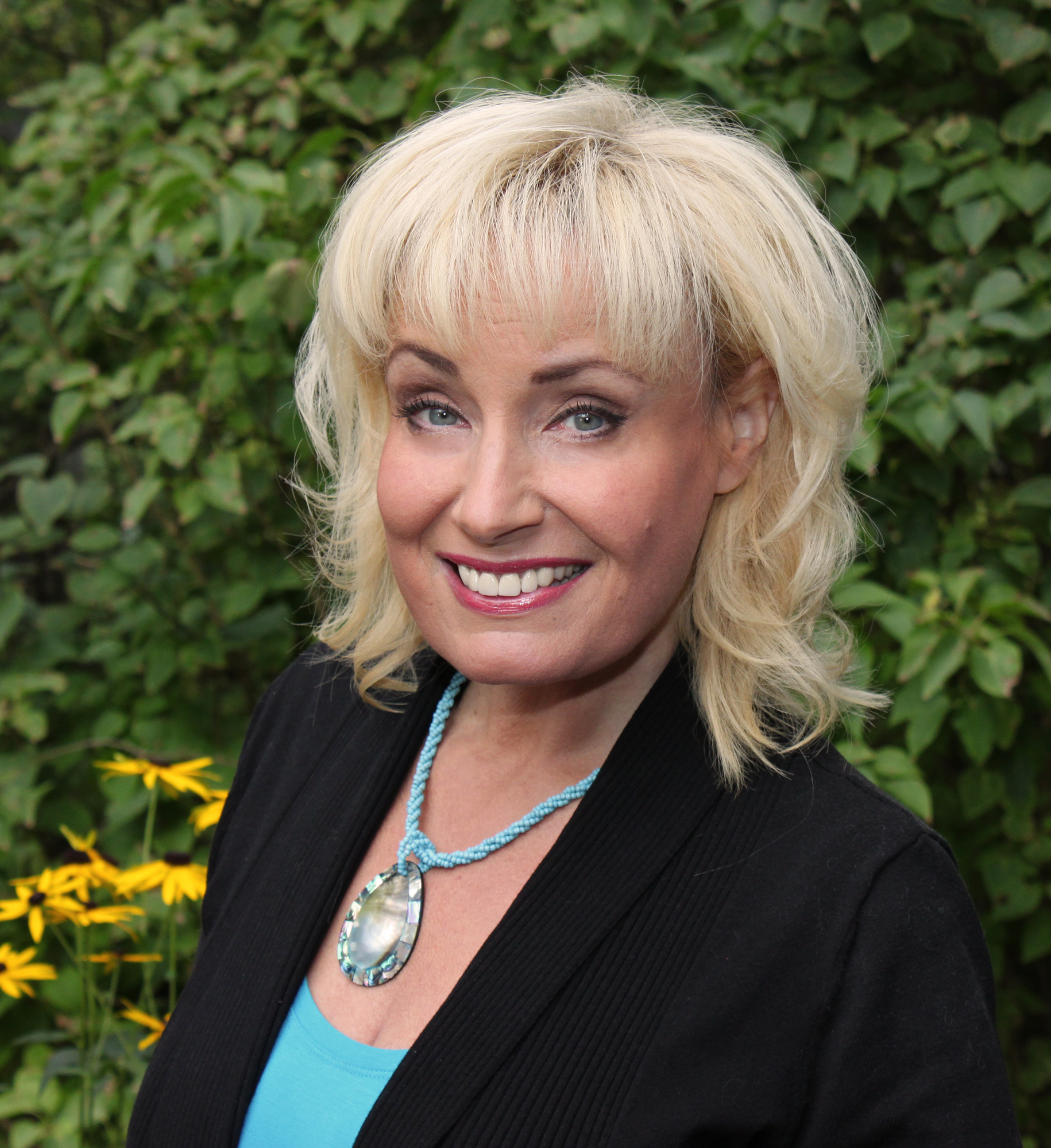 Sonja Lumme September 2012, Helsinki